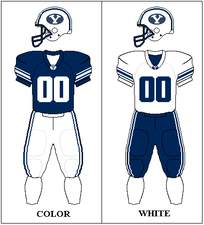 A depiction of the BYU Cougars football team uniform, both color and white, as of November 2009.